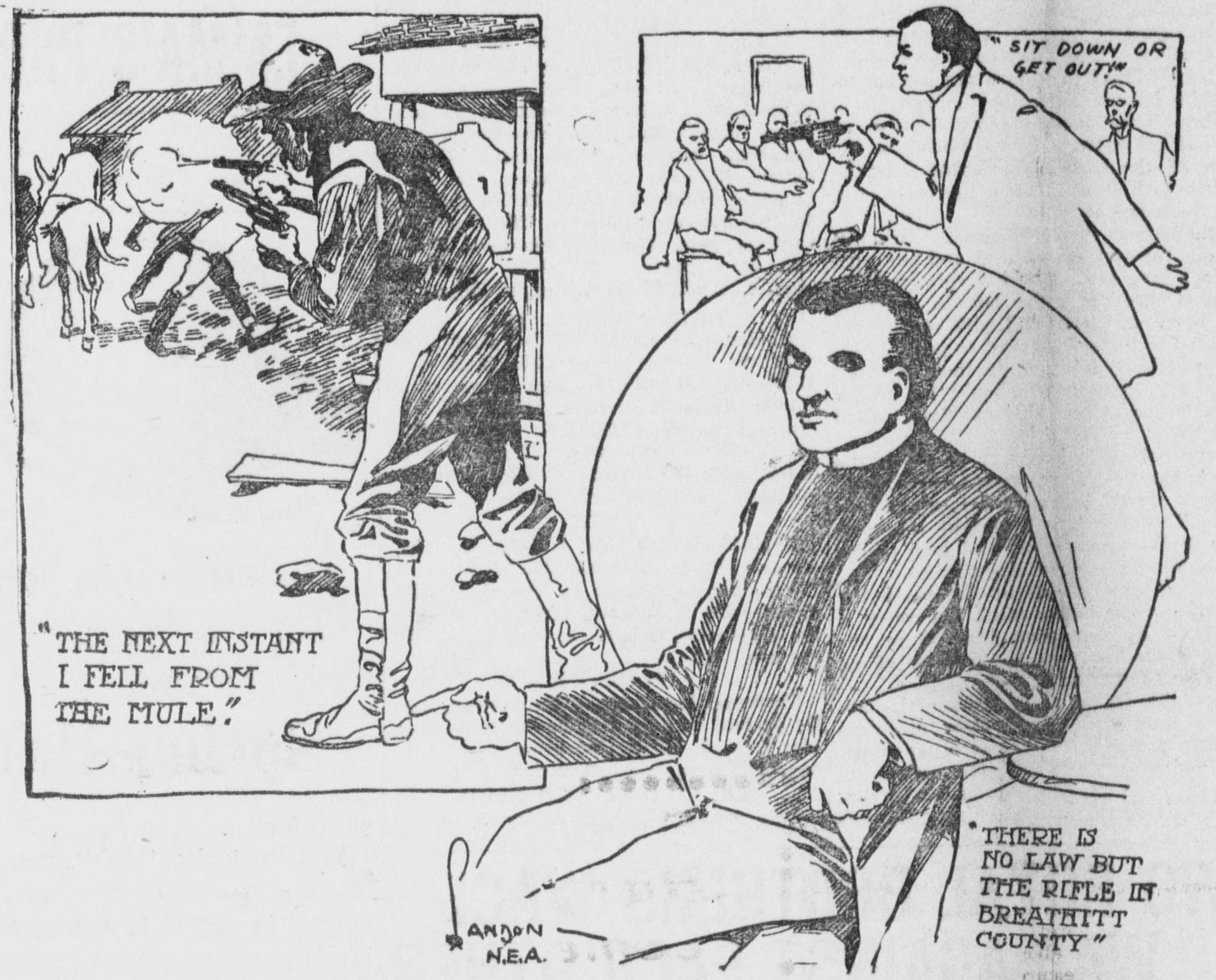 In 1903, Rev. John Starr traveled from Cleveland, Ohio to the mountains of Breathitt County, Kentucky, where he spent nine months trying to preach to the locals; however, he saw only violence and corruption, and left Breathitt in April 1904.